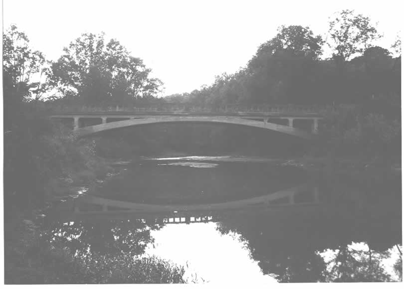 Side of the Bridge in Franklin Township, which carries Pennsylvania Route 188 over Ten Mile Creek within Morrisville, a community in Franklin Township, Greene County, Pennsylvania, United States. Built in 1919, this open spandrel stone arch bridge is listed on the National Register of Historic Places.